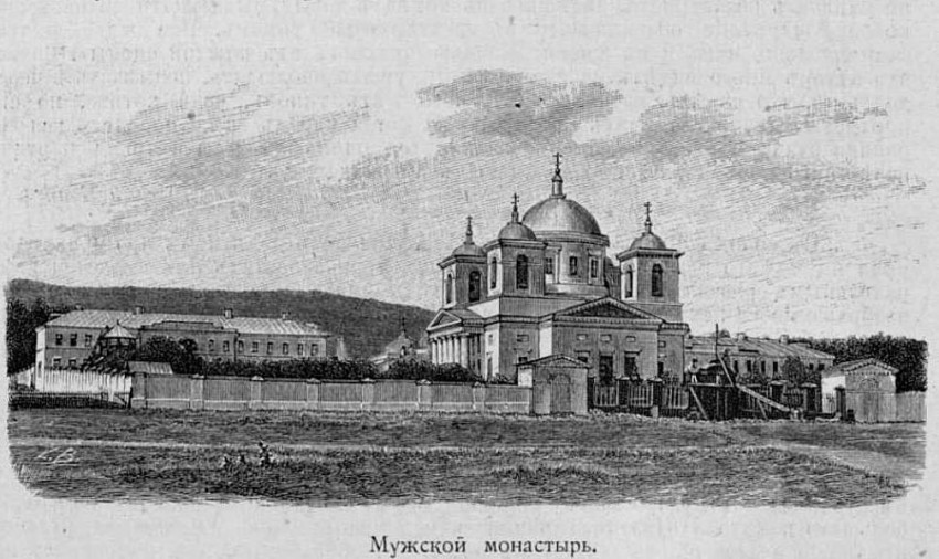 Spaso-Preobrazhensky Monastery (Saratov)